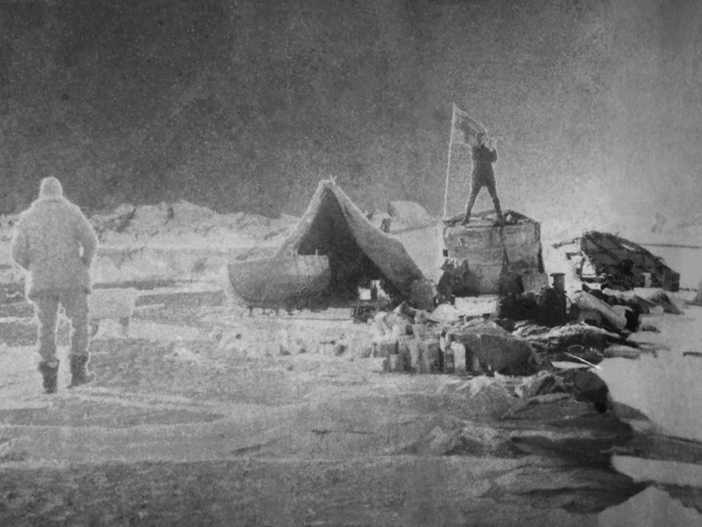 Photograph from Swedish polar explorer S. A. Andrée's disastrous balloon expedition of 1897, taken by Nils Strindberg, dead 1897. The photo shows the crash site of the balloon on the pack ice in the Arctic Sea.